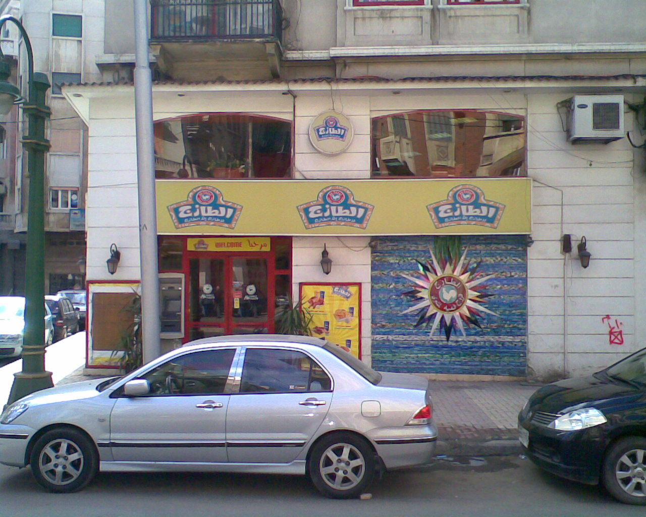 Al Tazaj restaurant, Ramleh Station, Alexandria, Egypt.